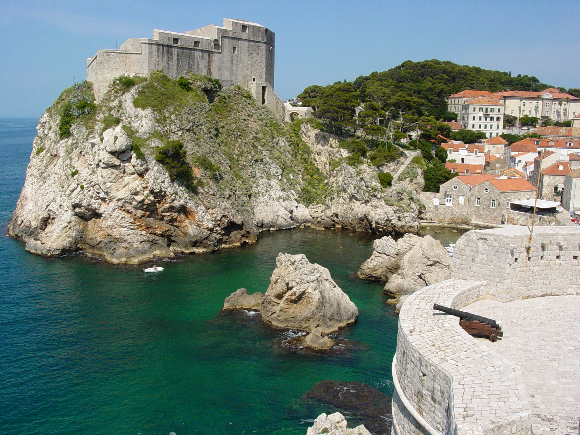 Dubrovnik Harbor viewed from the Old City walls, Dubrovnik, Croatia. June 2004.